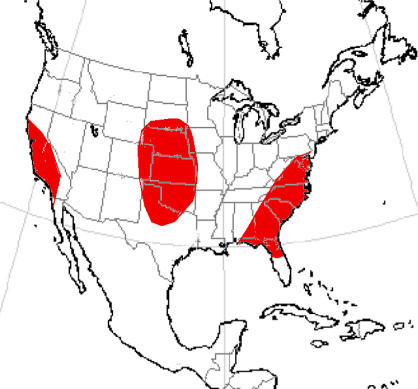 Range of Pediomeryx based on fossil finds